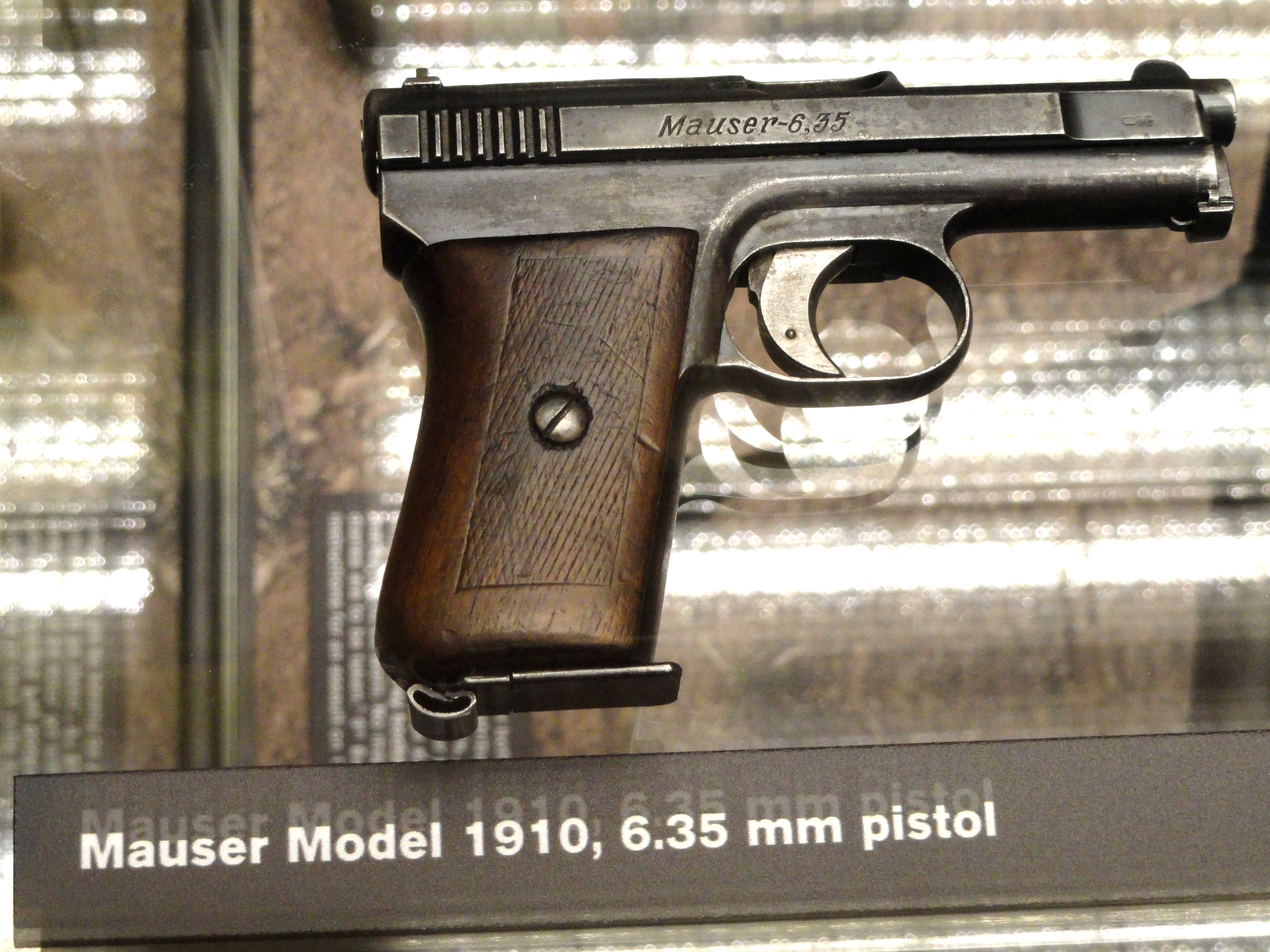 Handgun exhibited in the National World War I Museum at the Liberty Memorial, 100 W. 26th Street, Kansas City, Missouri, USA.